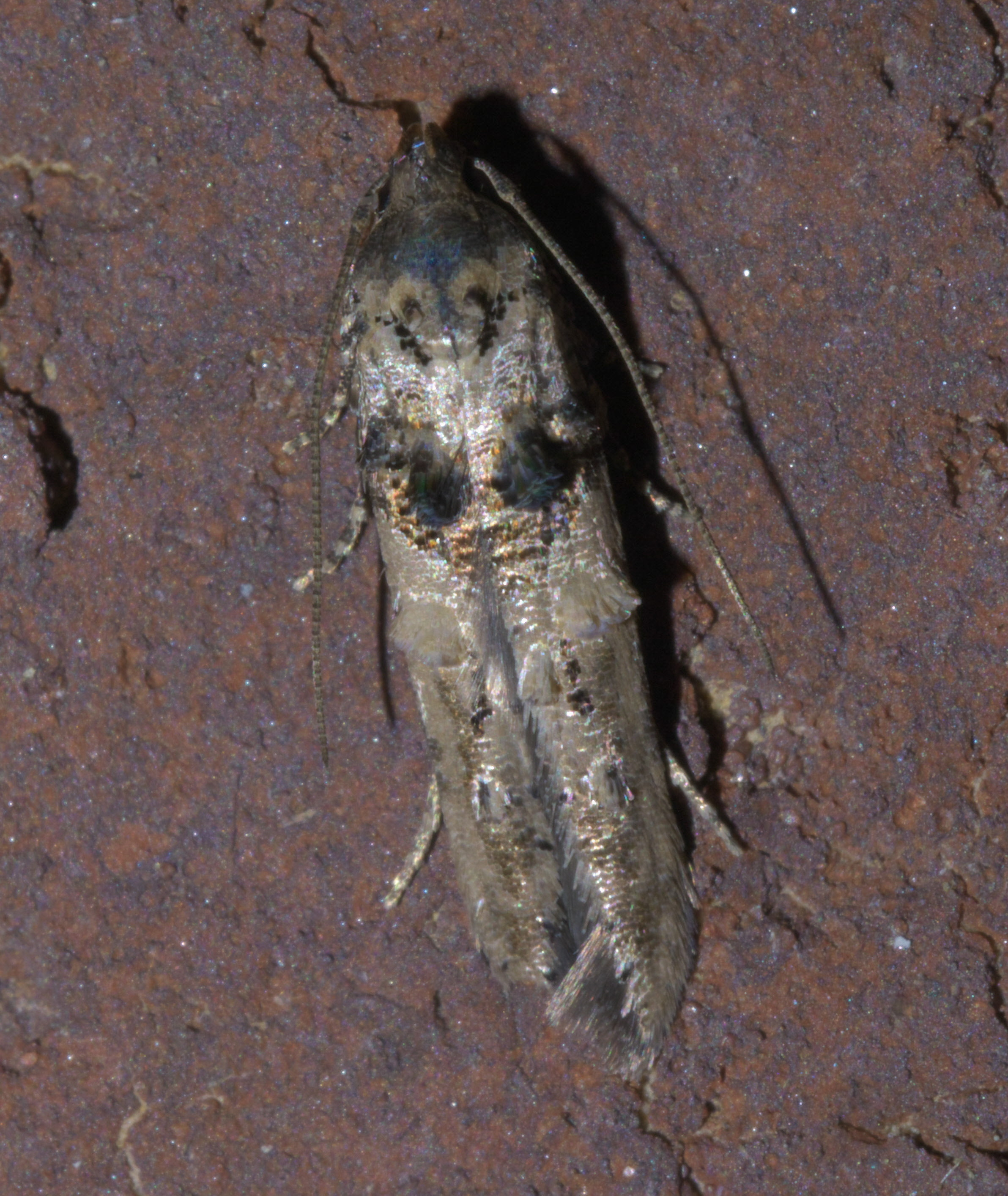 Walshia, Family: Cosmet Moths, Size: 8.1 mm, ID Confidence: 98